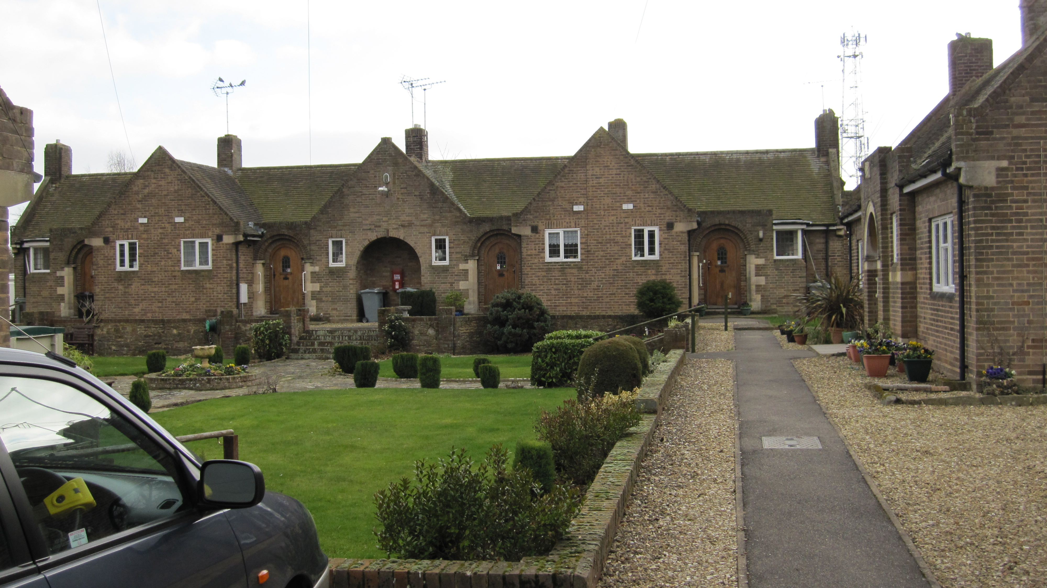 BUC almshouses, West street - the quadrangle